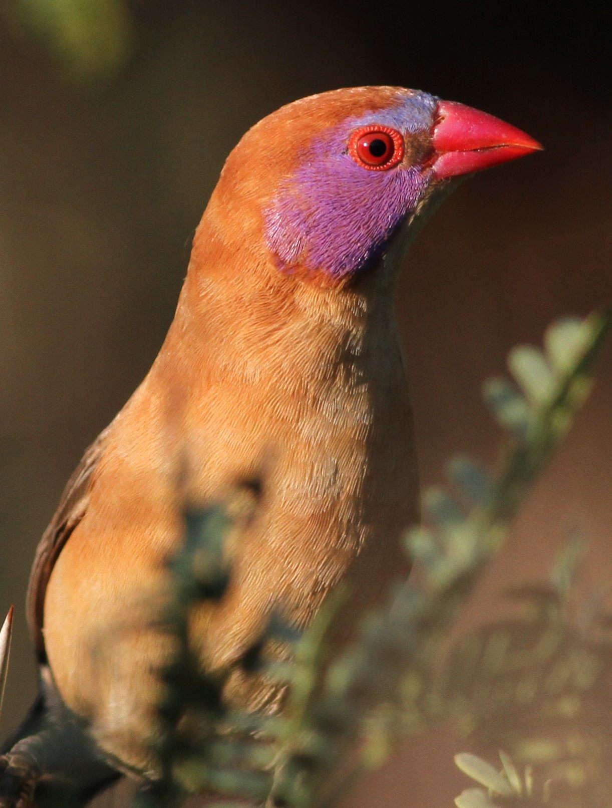 Violet-eared waxbill, Uraeginthus granatinus, at Pilanesberg National Park, Northwest Province, South Africa (female)